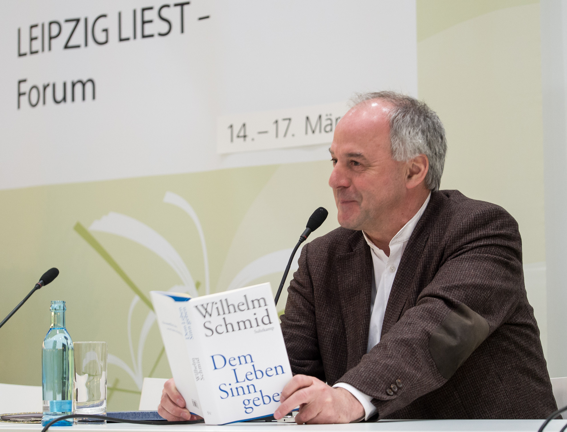 The German philosopher Wilhelm Schmid at the 2013 Leipzig Book Fair.